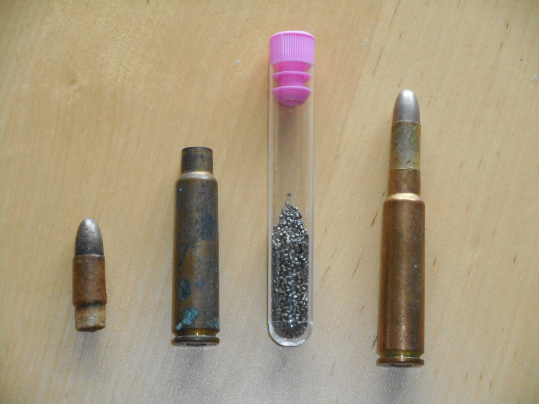 Swiss 7,5 mm GP90/03 service cartridge. From left to right: Paper patched bullet, cartridge case, PC88 propellant and complete cartridge. It was loaded with a paper patched lead hollow based heeled steel-capped round-nose bullet. Starting from the rear of the nose section the bullets were wrapped around by two turns of paper, much like cotton patches were placed around the bullet of a musket. This paper patching was supposed to aid in the gas seal of the bullet and reduce metallic fouling of the barrel. PC 88 cut tubular shaped rauchschwacher (literally "low smoke") propellant was used in the GP90/03 cartridge. As a single-base powder PC 88 relies on nitrocellulose as its propellant ingredient.